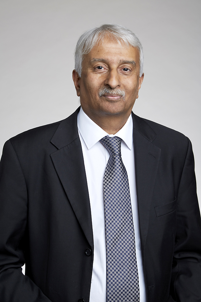 (Vengalil) Krishna (Kumar) Chatterjee FRS FMedSci FRCP is a Professor of Endocrinology in the Department of Medicine at the University of Cambridge and a Fellow of Churchill College, Cambridge Attribution: The Royal Society